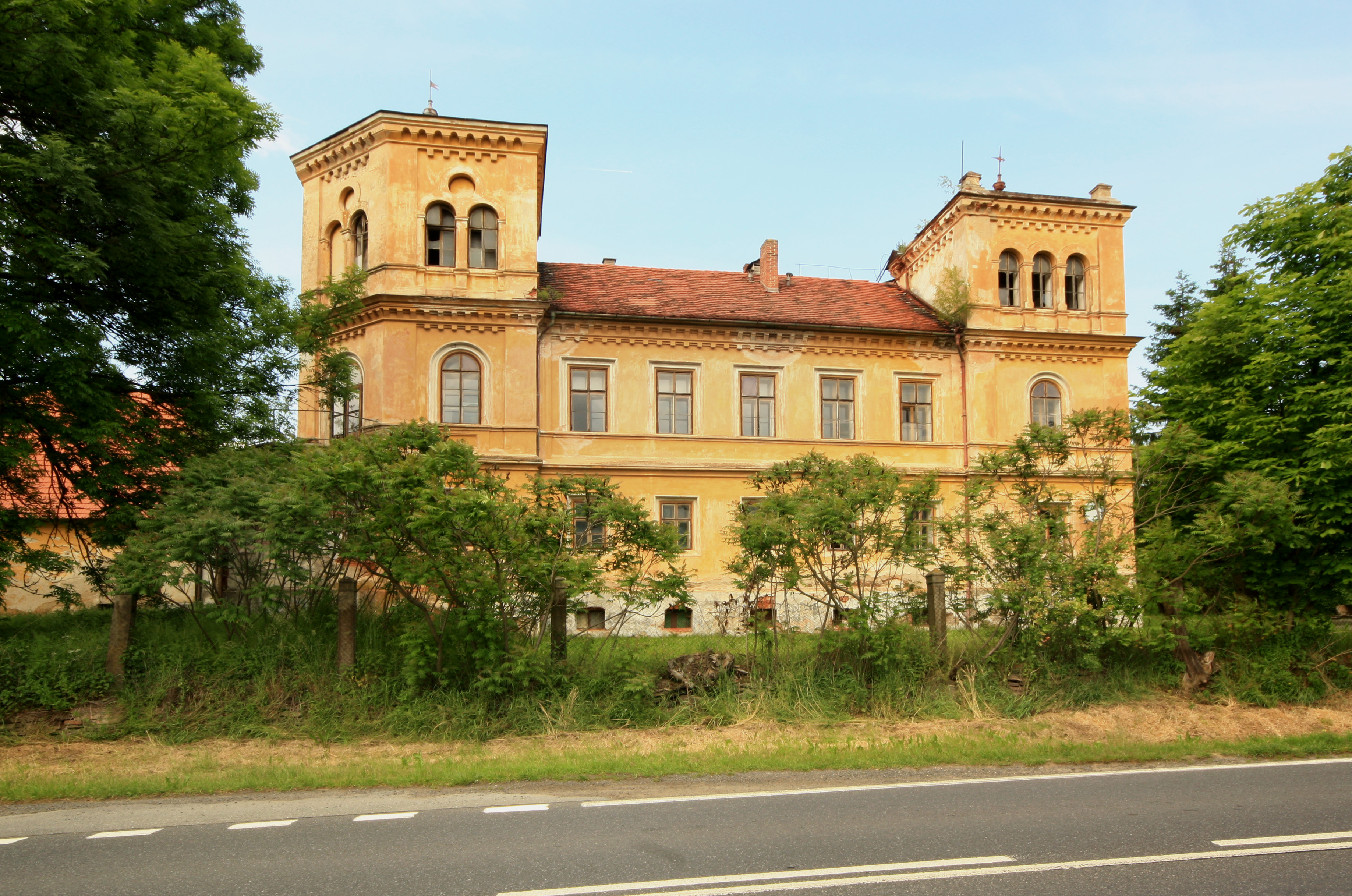 Castle in Nový Čestín, part of Mochtín, Czech Republic